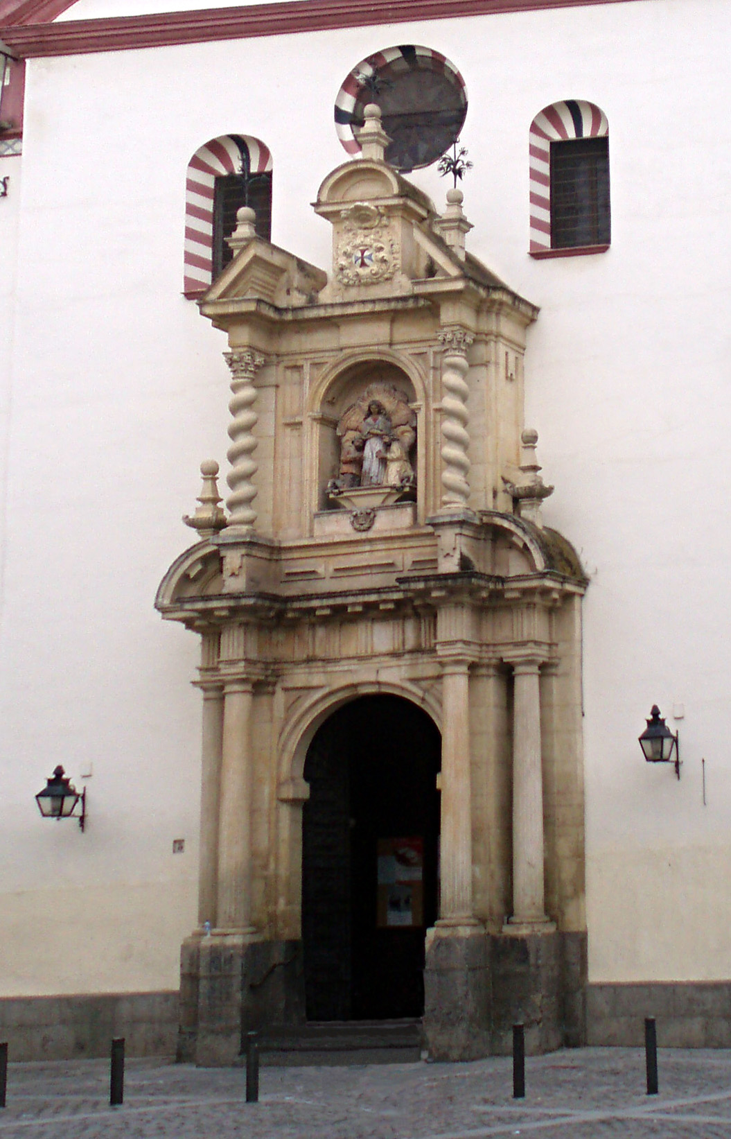 Portal church of the Trinity, in the city of Córdoba. (Spain).